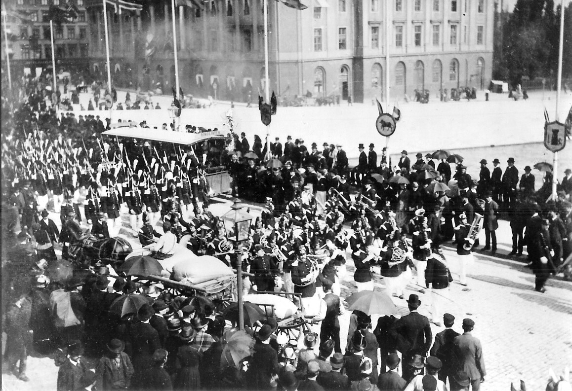 State visit by the king of Portugal to Stockholm.